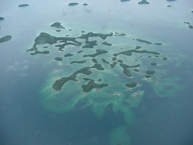 Reef south east of Mbuinitusu Solomon Islands